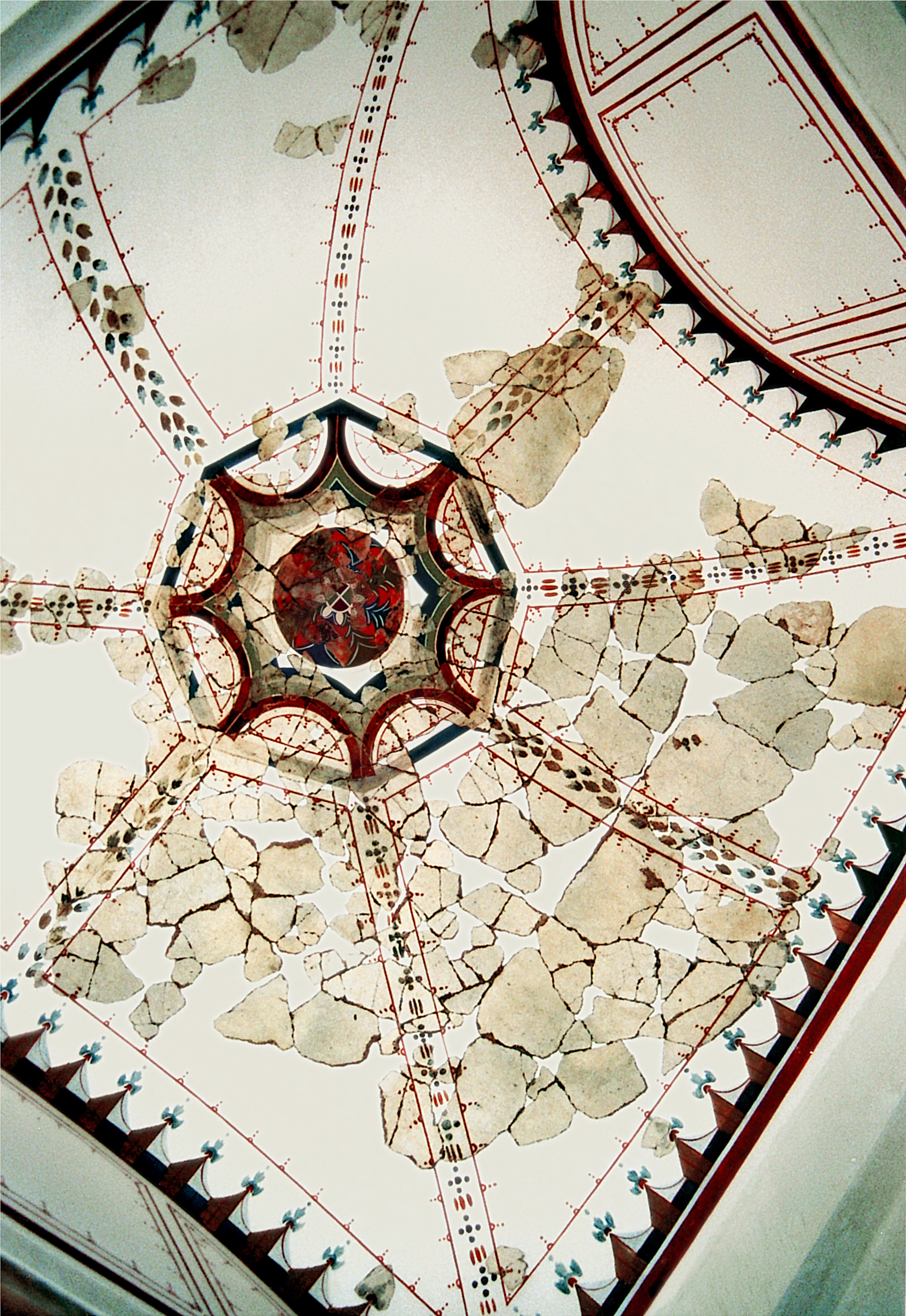 Villa Rustica Ahrweiler, Germania Inferior, Germany: Square, with a barrel vault equipped room, which open to the corridor. This room and the paintings of the vault were partially reconstructed with the Haus II in the second half of the first century AD.